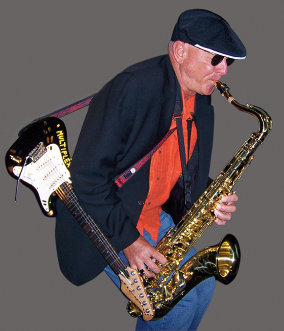 photo of Kenny Millions